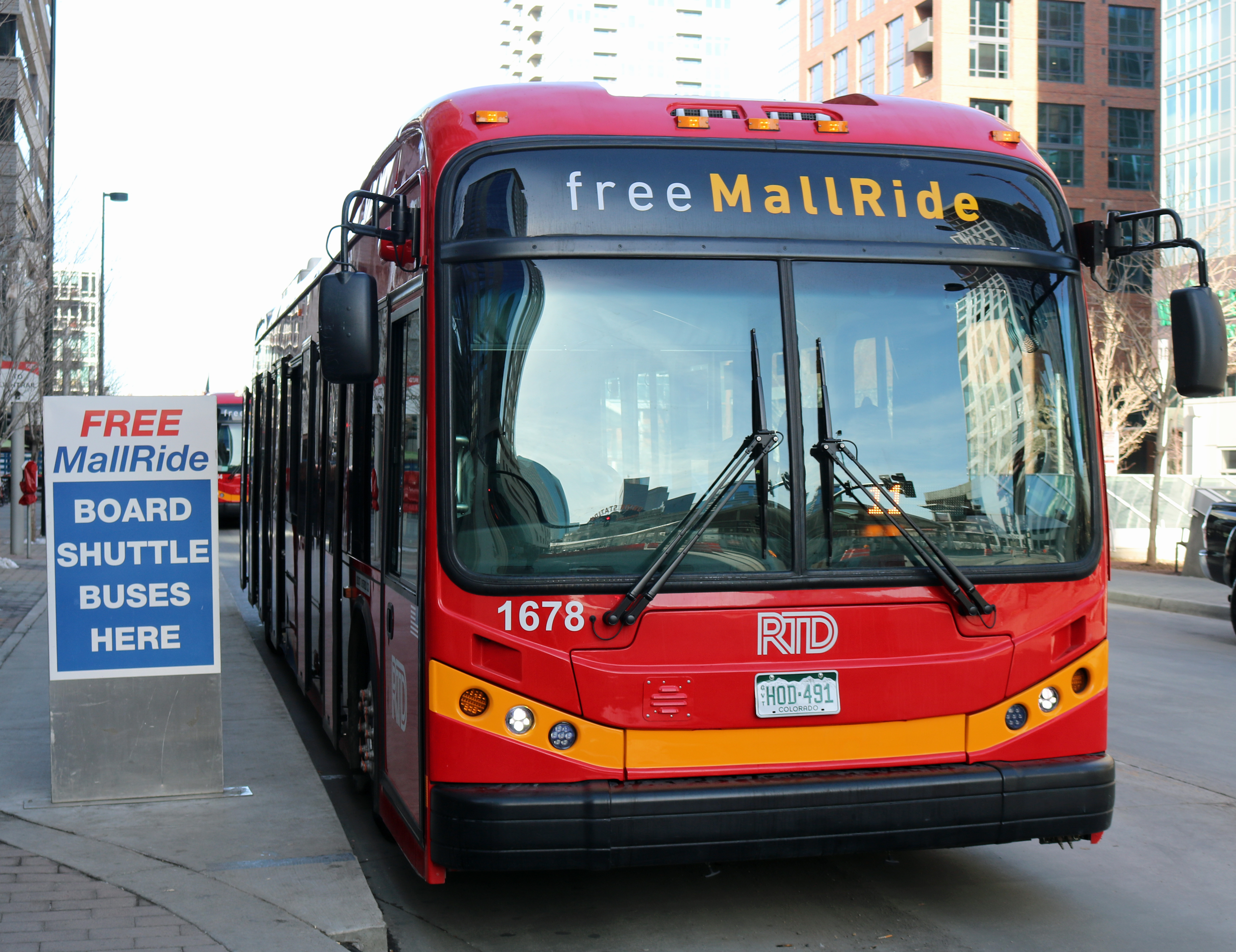 One of the Denver RTD Free MallRide busses, located here at its western terminus near Union Station.